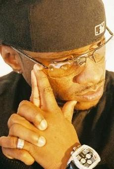 D.O.P.E. of DVS Mindz as D-Dot.